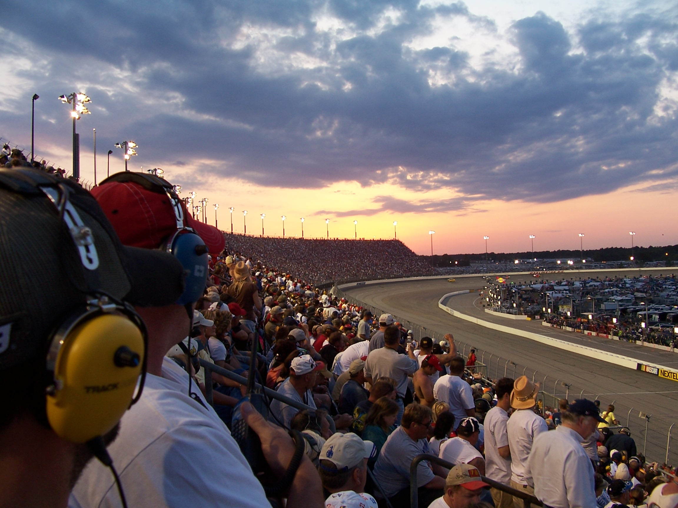 This picture was taken at the Dodge Charger 500 on May 13, 2006 by Randall Stewart.